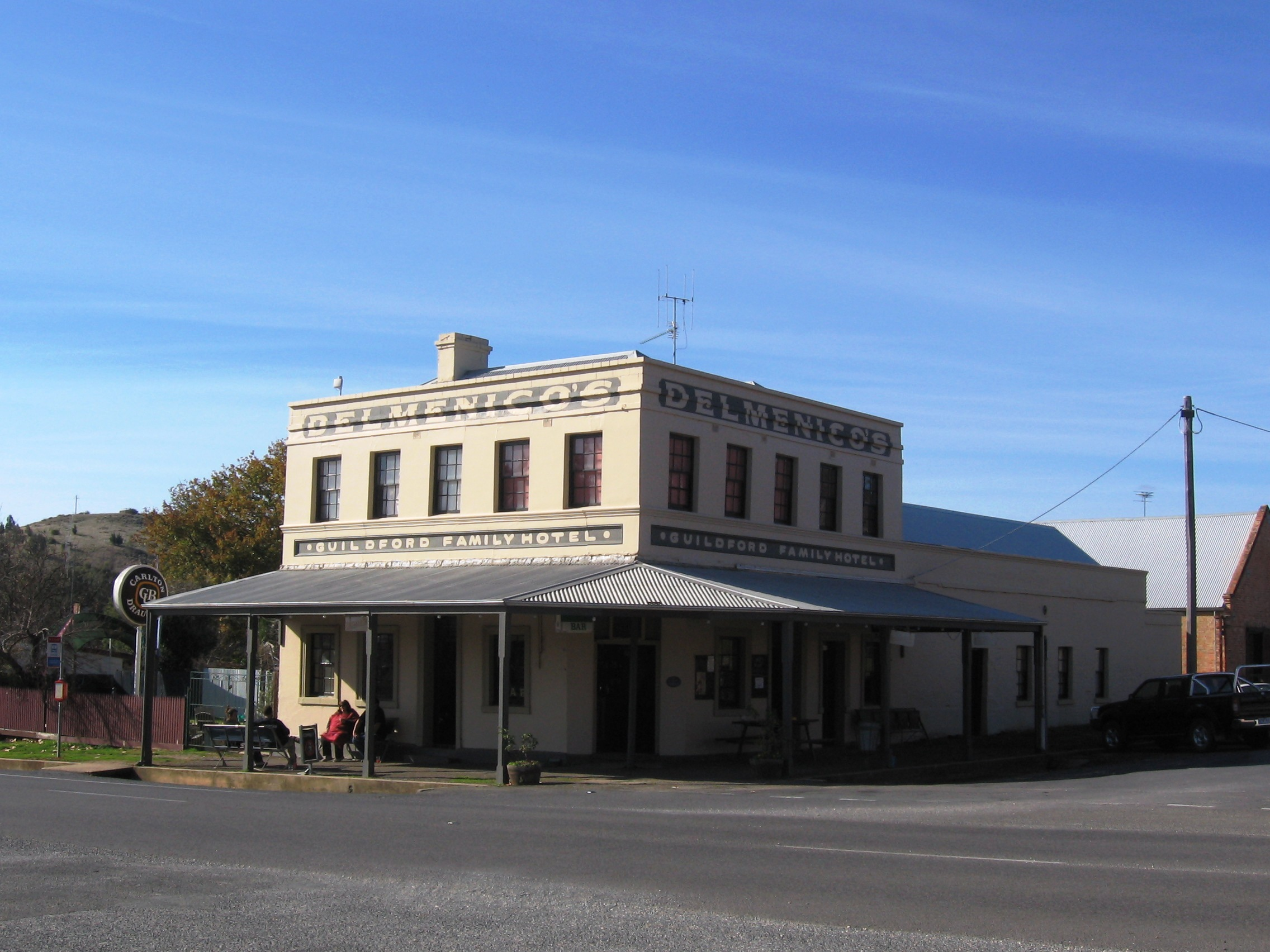 Delmenico's Family Hotel at Guildford, Victoria